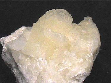 Nahcolite Locality: California, USA (Locality at ) A good specimen with more isolated crystals , to 1.6 cm! Old material not readily obtainable, even in local collections...In fact, I can honestly say that I haven't even SEEN one for sale in the 8 years I have lived in Southern California. These were collected several decades ago. 8 x 7 x 4.5 cm